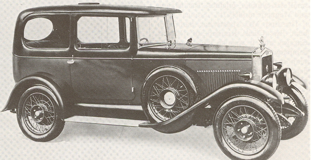 1927 MG 14/40 saloon